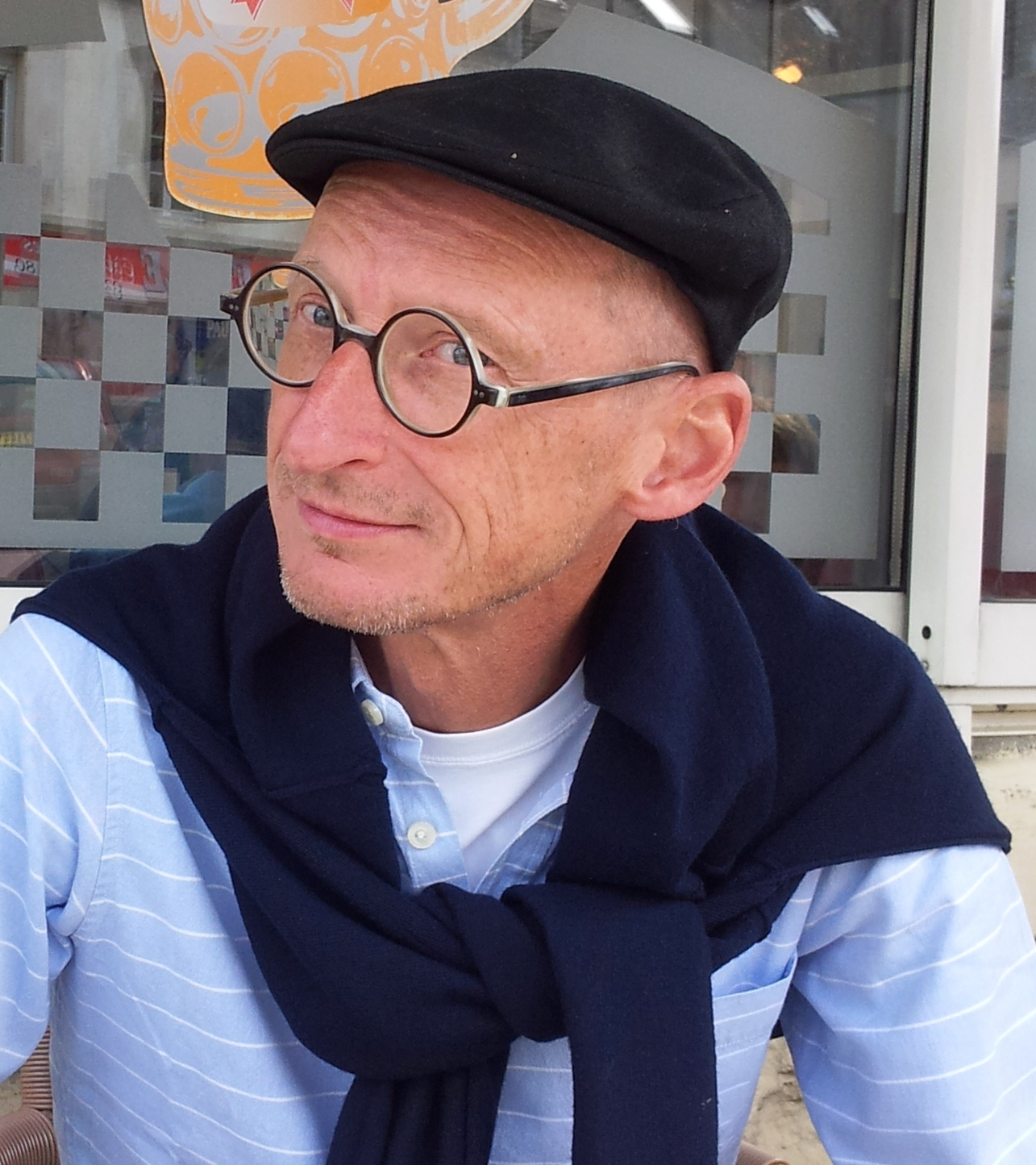 Portrait photo of Tobias Hoheisel, opera director and designer, taken in Barneville, August 2012